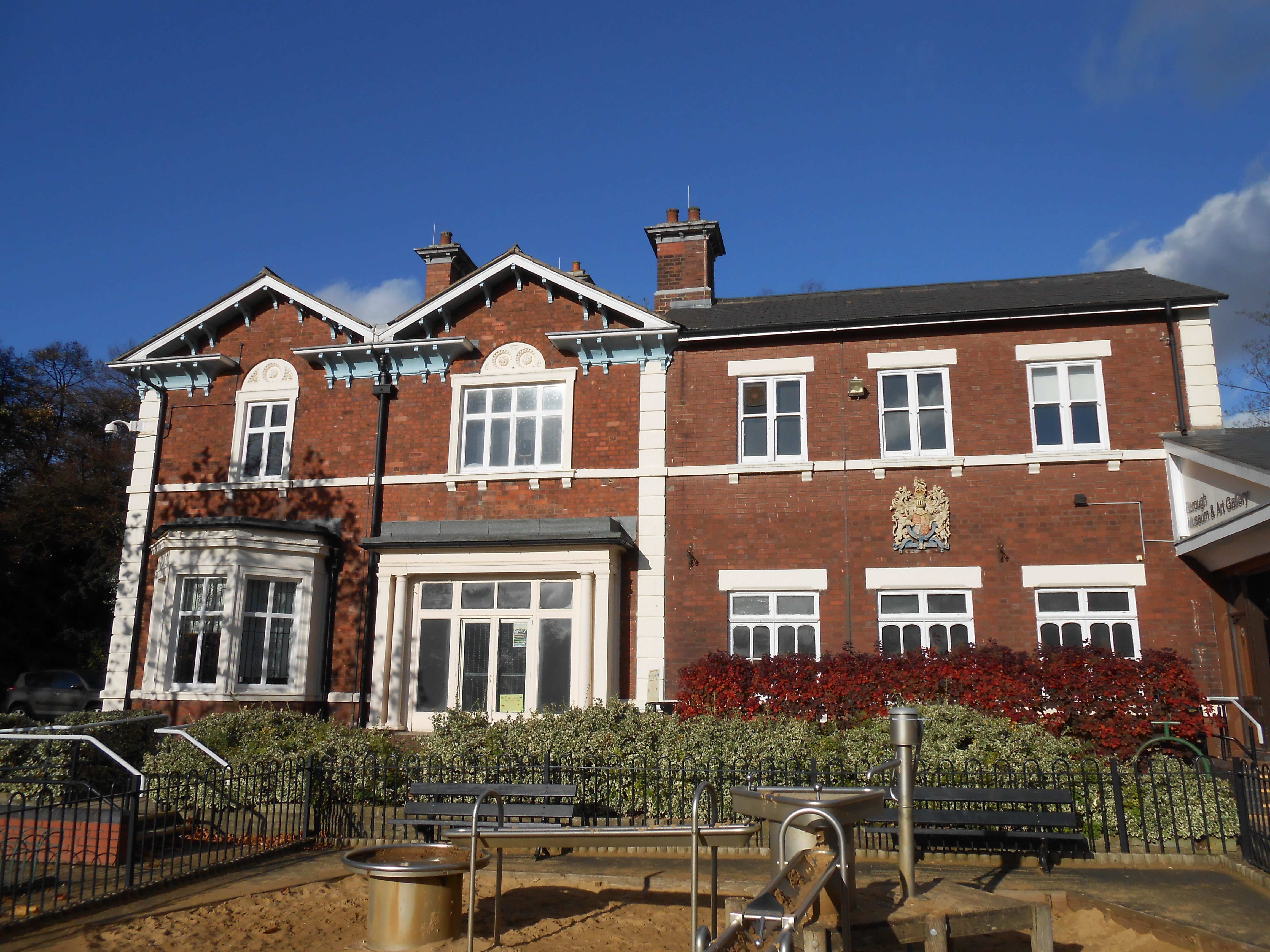 Newcastle Borough Museum & Art Gallery, Brampton Park, Newcastle-under-Lyme, Staffordshire, England.